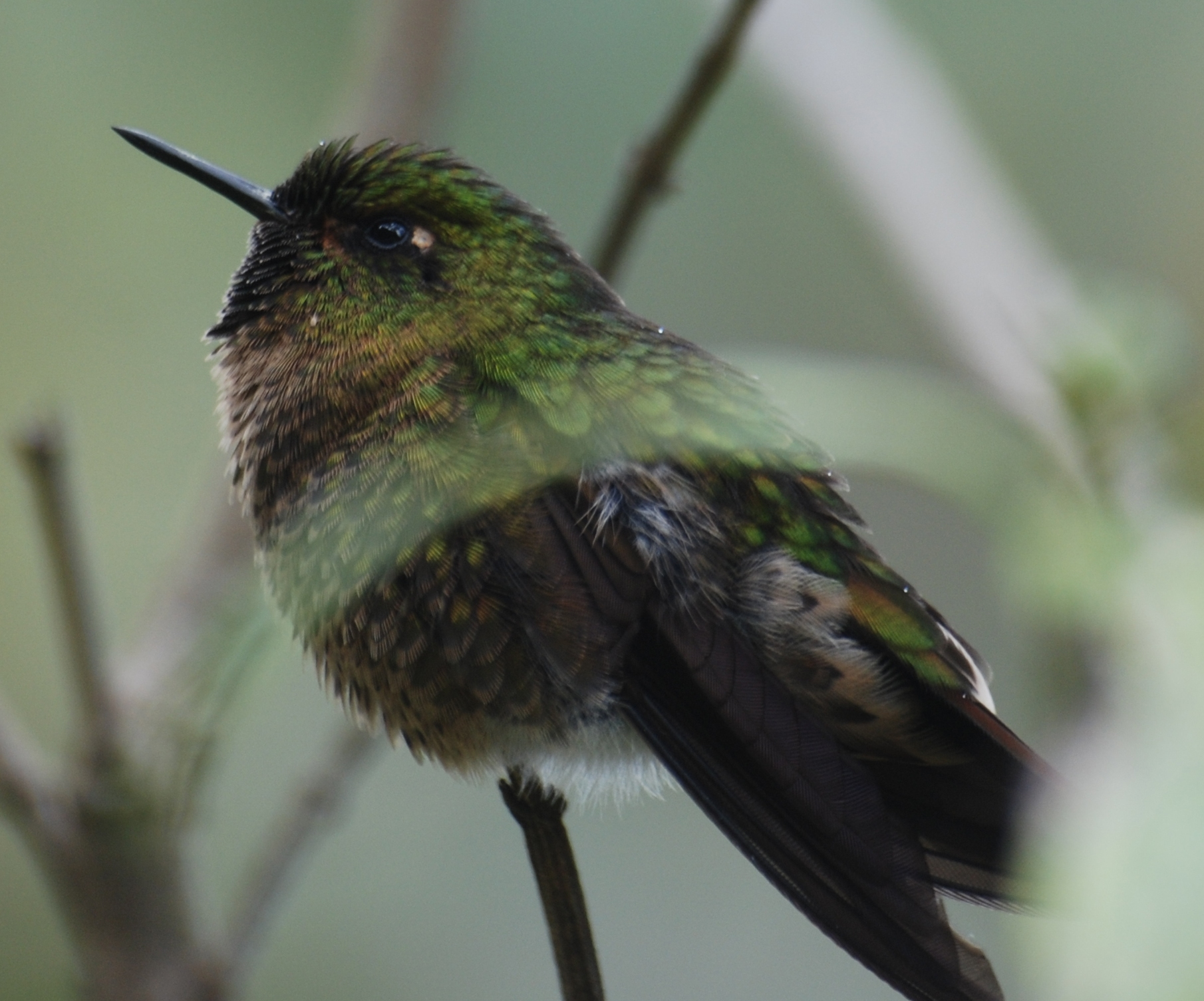 Tyrian Metaltail (Metallura tyrianthina) at Yanacocha Nature Preserve, Ecuador.